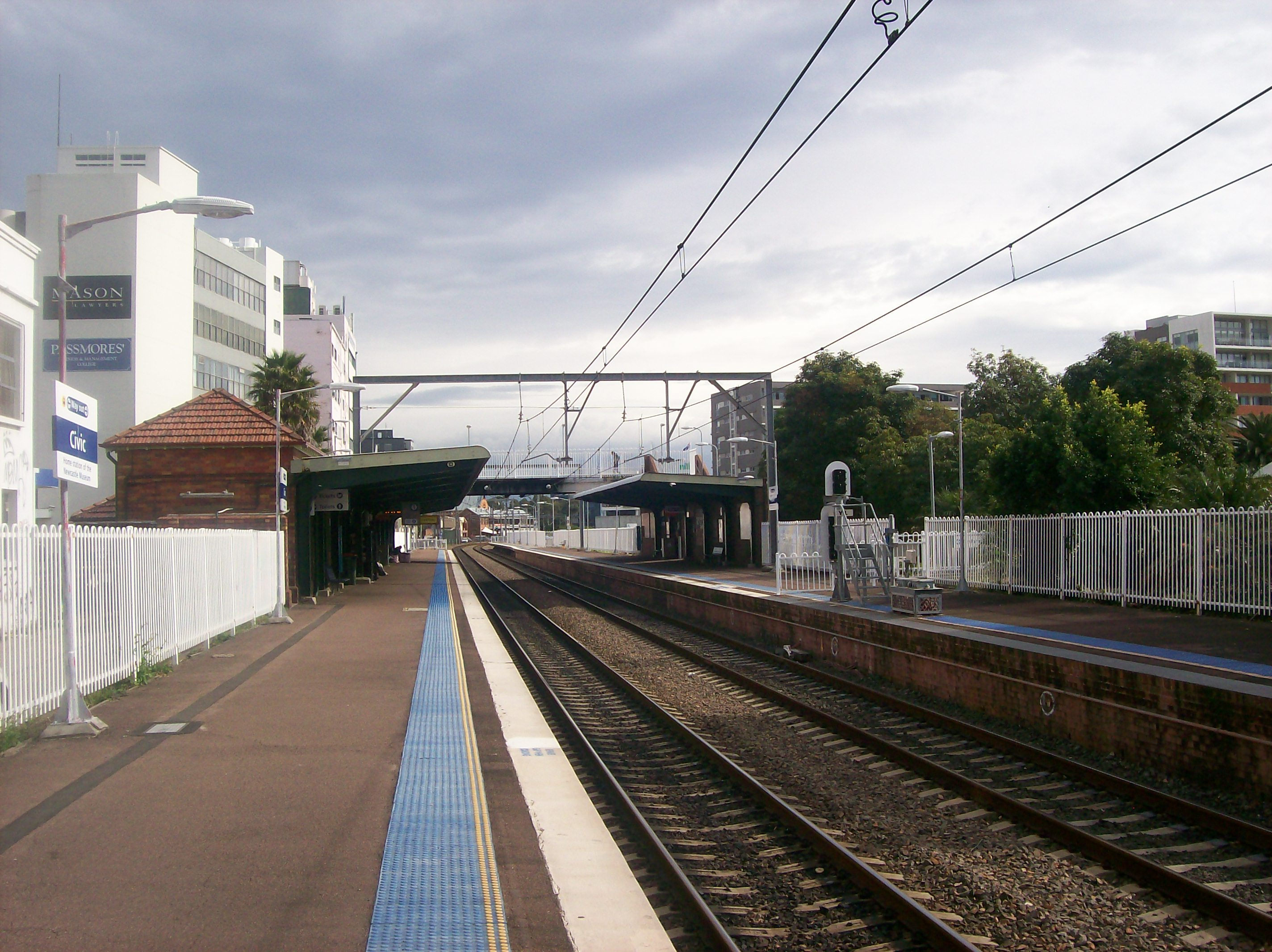 Civic railway station looking west on platforms